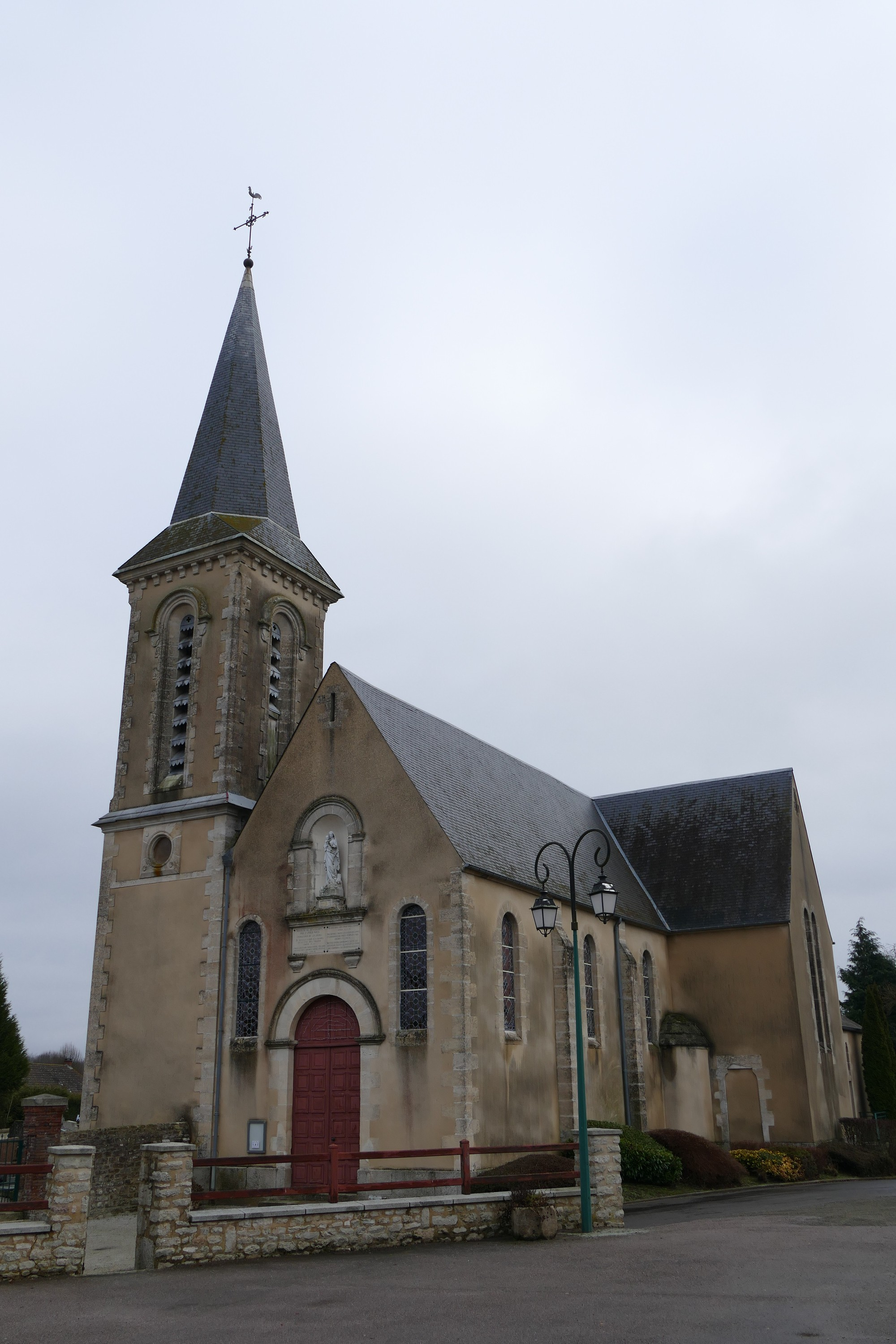 Saint-Peter's church in La Chapelle-près-Sées (Orne, Normandie, France).